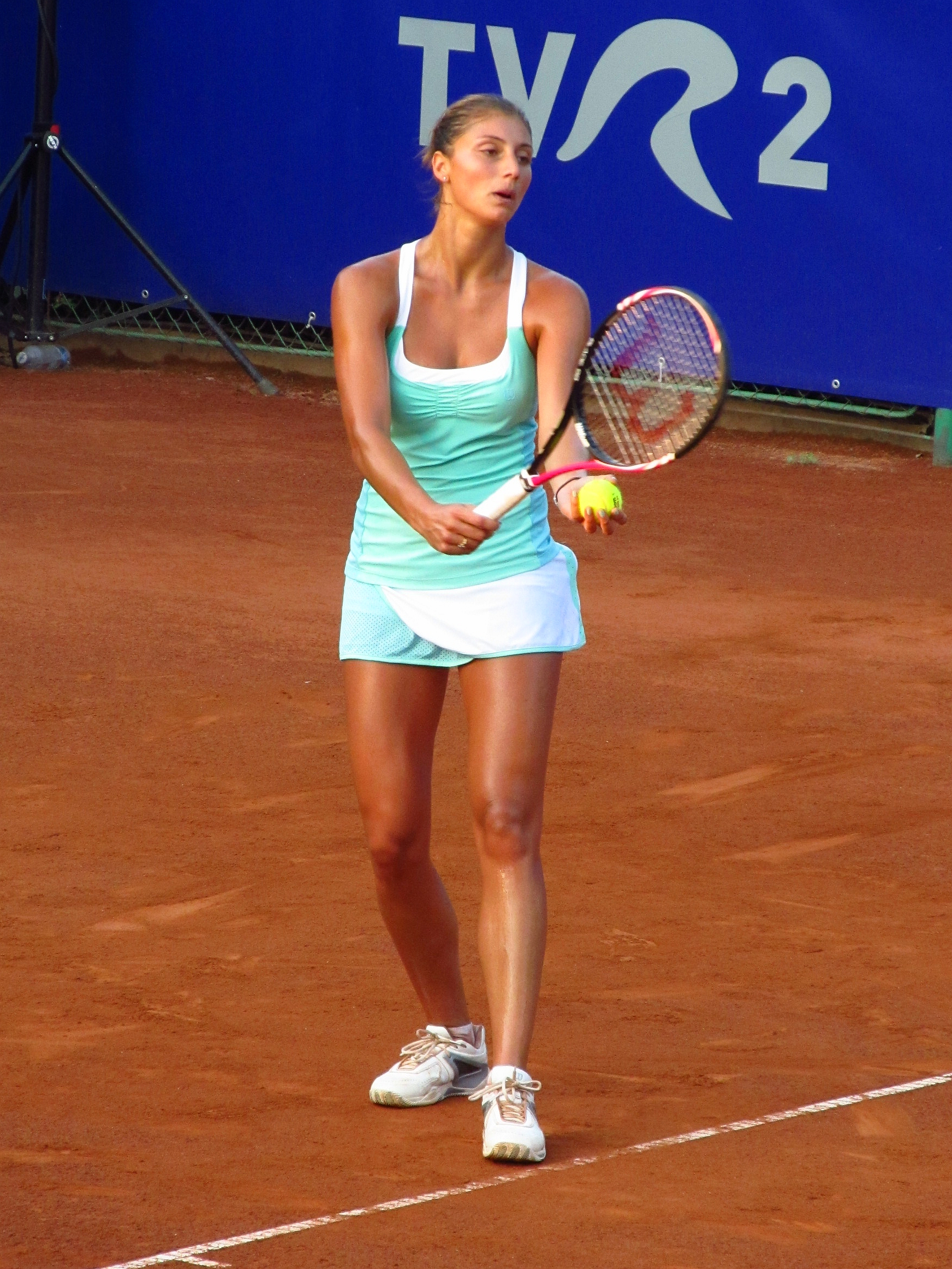 Corinna Dentoni playing singles in the first round at the 2011 BCR Open Romania Ladies